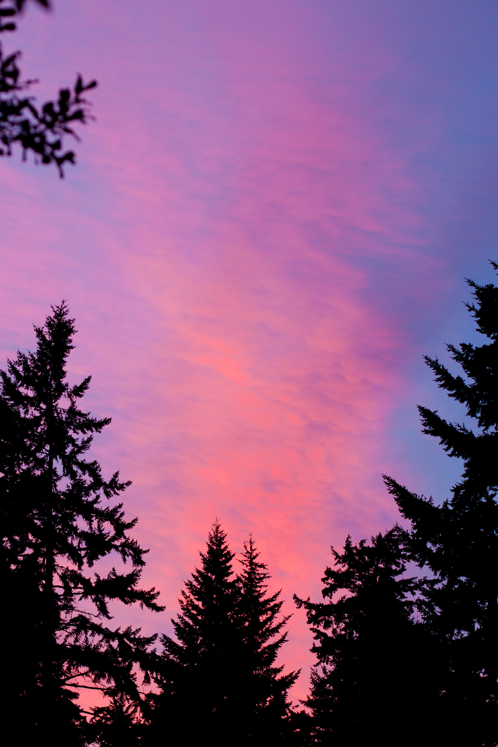 Red Sky at Night